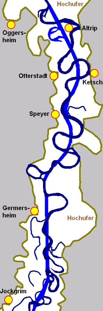 Description: plan of the Rhine River in the 19th century